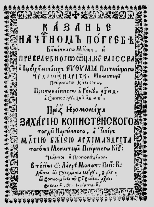 Title page of farewell speech by Zakhary Kopystenski, the abbot of Kiev-Pechersk Lavra on the funeral of his predecessor, Yelisey Pleteniecki (1544-1624). Published in the Lavra typography in 1625.